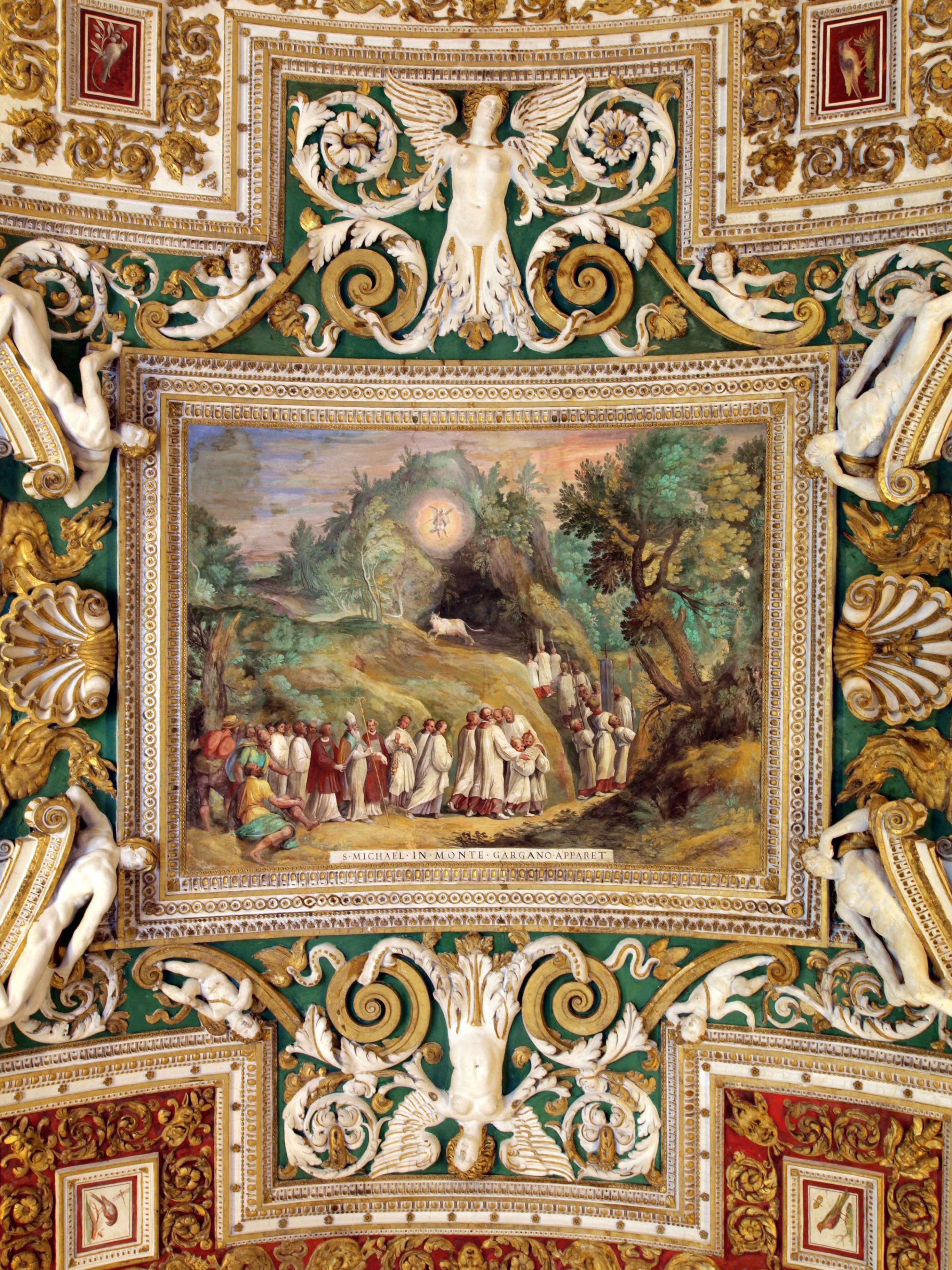 S MICHAEL IN MONTE GARGANO APPARET.